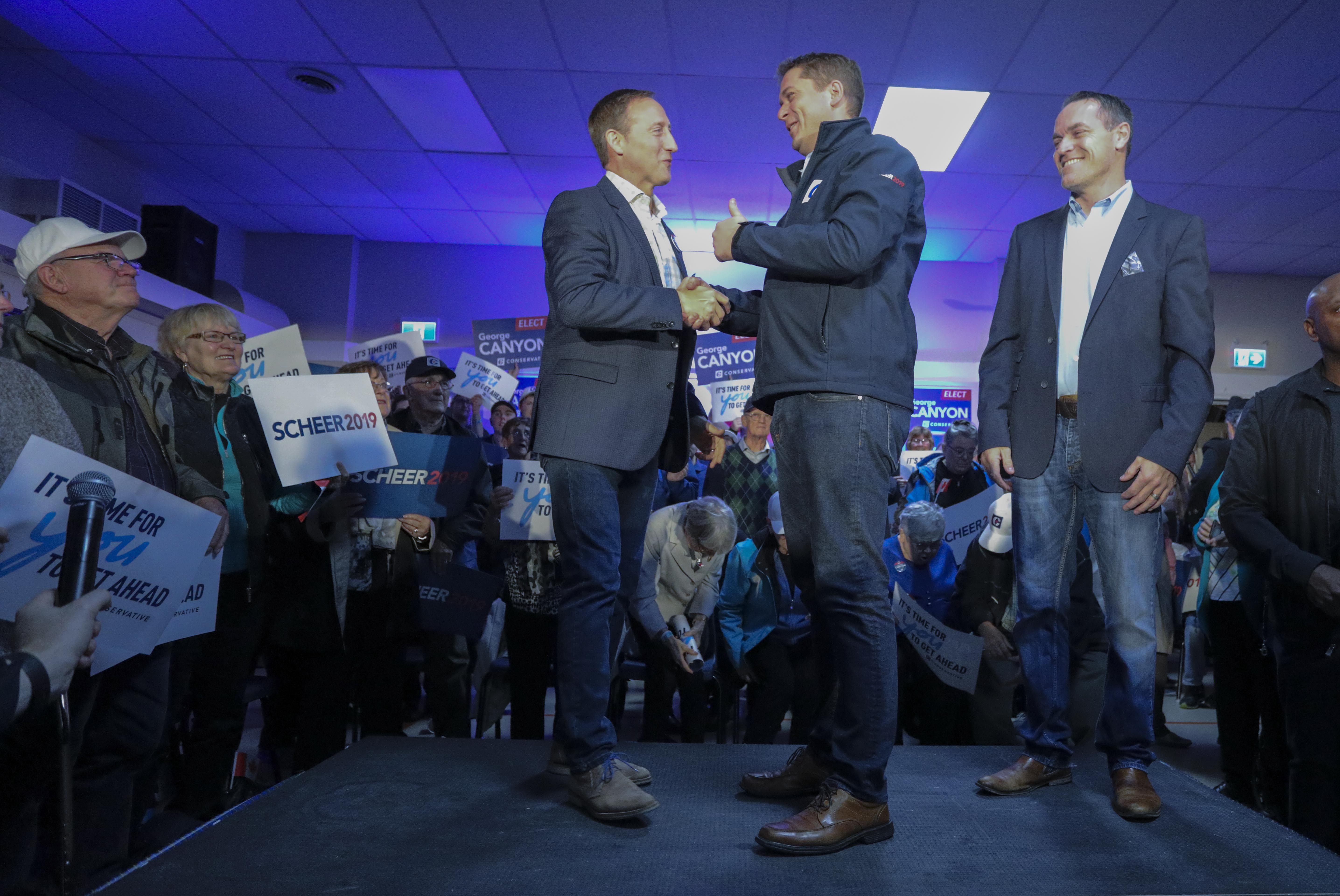 Little Harbour knows how to throw a big party! Thanks to the 400+ Conservatives who packed the hall in support of George Canyon last night. And thanks Peter MacKay for your support. Three more days!